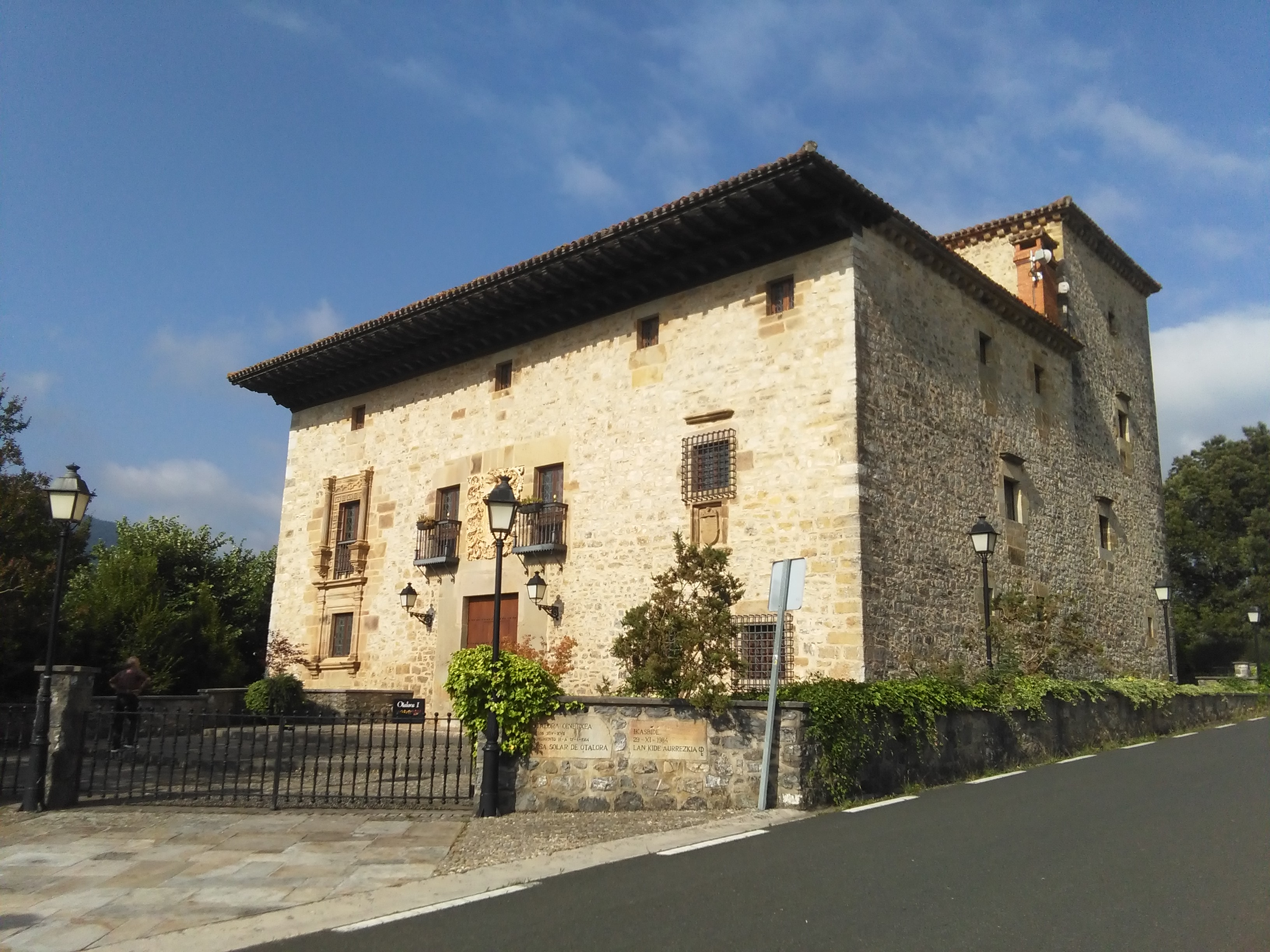 Otalora Tower house in Aretxabaleta